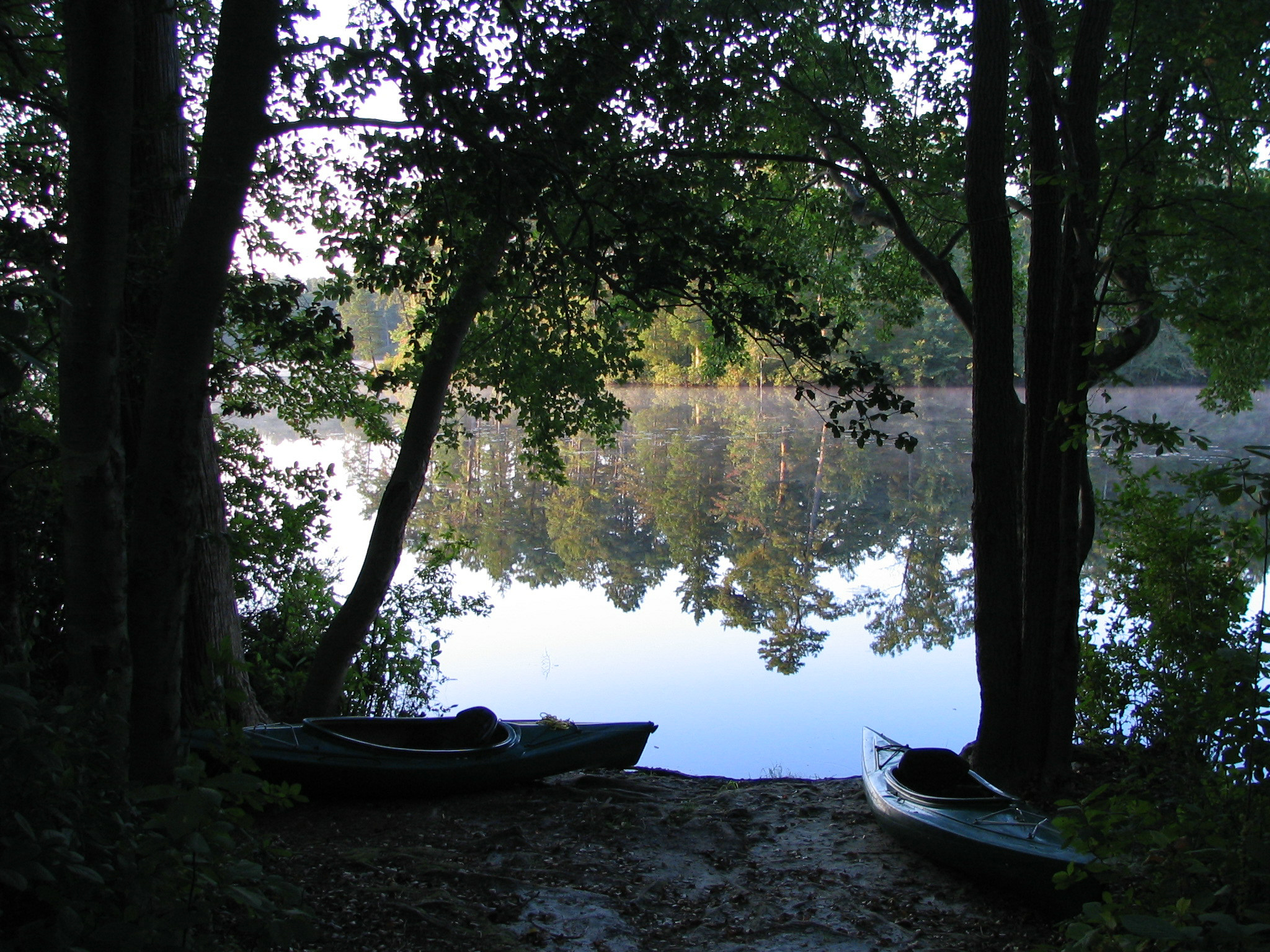 Atsion Recreation Area in Wharton State Forest Taken by User:Mwanner, 9 September, 2005